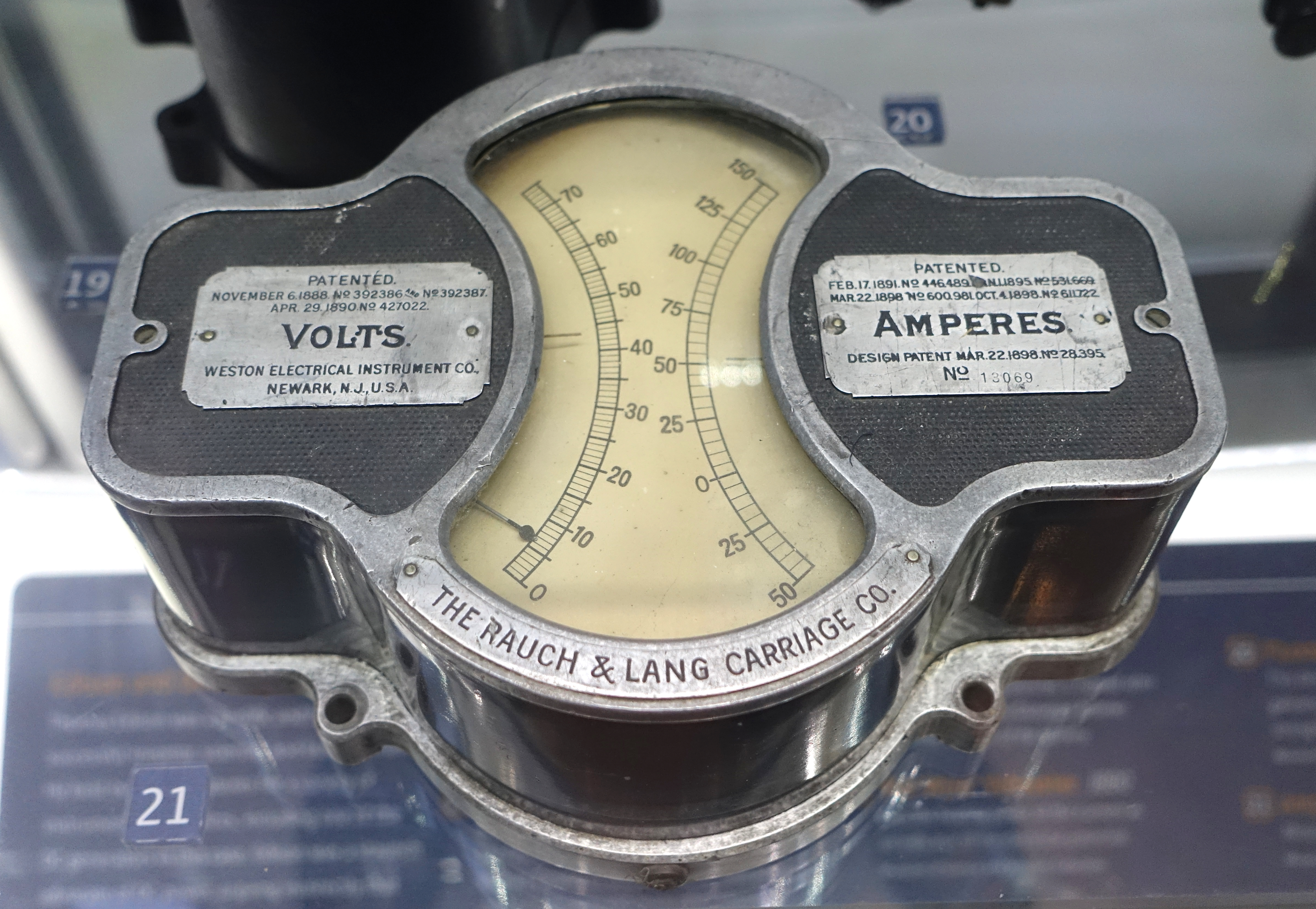 Exhibit in the Museum of Science and Industry, Chicago, Illinois, USA.